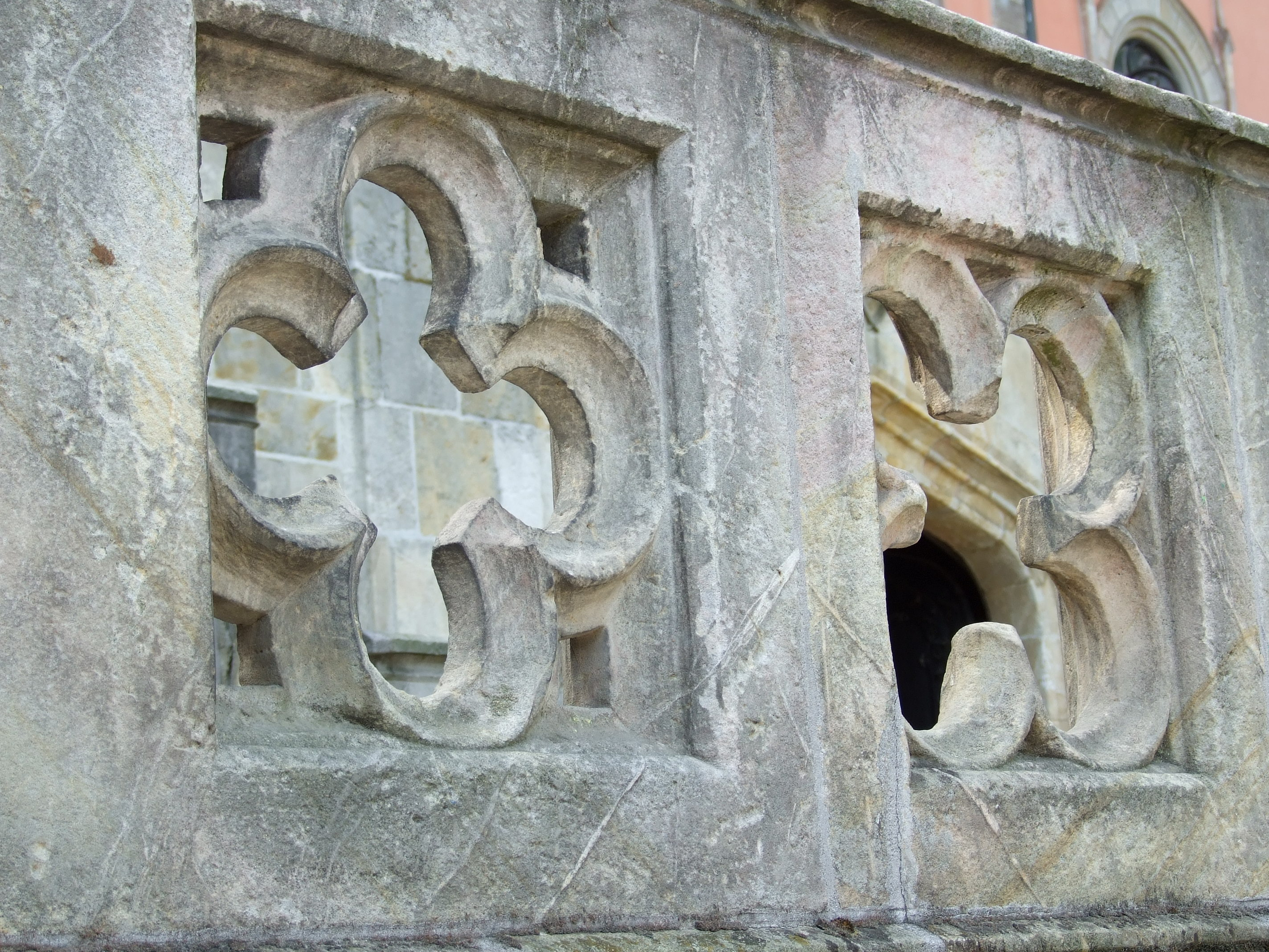 Quatrefoil window, Sychrov castle, Poland.